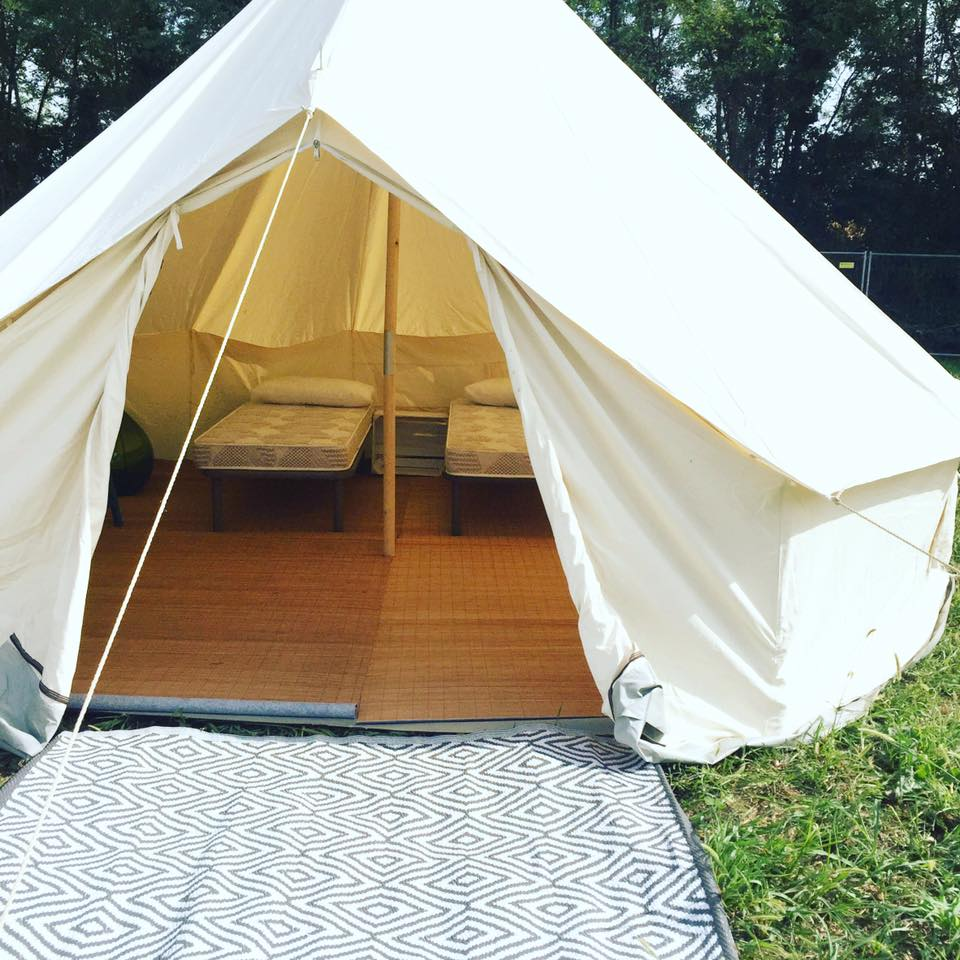 Home Festival pop-up hotel